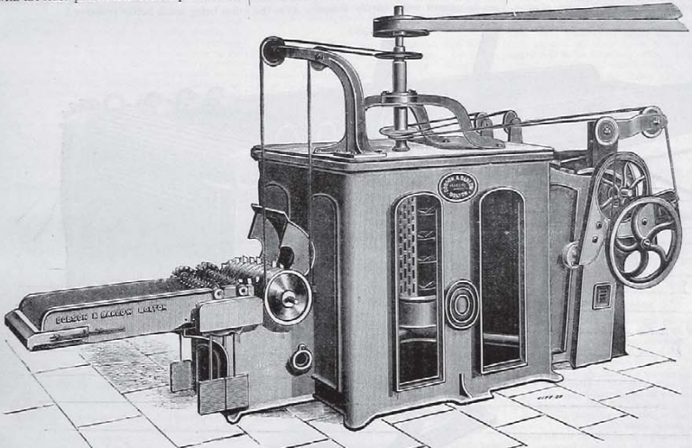 Capture from Textile Mercury, a paper published by Marsden in Manchester in 1892. [1] This UK artistic work, of which the author is unknown and cannot be ascertained by reasonable enquiry, is in the public domain because it is one of the following: A photograph, which has never previously been made available to the public (e.g. by publication or display at an exhibition) and which was taken more than 70 years ago (before 1st January 1944); or A photograph, which was made available to the public (e.g. by publication or display at an exhibition) more than 70 years ago (before 1 January 1944); or An artistic work other than a photograph (e.g. a painting), which was made available to the public (e.g. by publication or display at an exhibition) more than 70 years ago (before 1 January 1944). This tag can be used only when the author cannot be ascertained by reasonable enquiry. If you wish to rely on it, please specify in the image description the research you have carried out to find who the author was. The above is all subject to any overriding Publication right which may exist. In practice, Publication right will often override the first of the bullet points listed. Unpublished anonymous paintings remain in copyright until at least 1 January 2040. This tag does not apply to engravings or musical works. More information. You must also include a United States public domain tag to indicate why this work is in the public domain in the United States. This work is in the public domain in the United States because it was published (or registered with the U.S. Copyright Office) before January 1, 1923. Public domain works must be out of copyright in both the United States and in the source country of the work in order to be hosted on the Commons. If the work is not a U.S. work, the file must have an additional copyright tag indicating the copyright status in the source country.